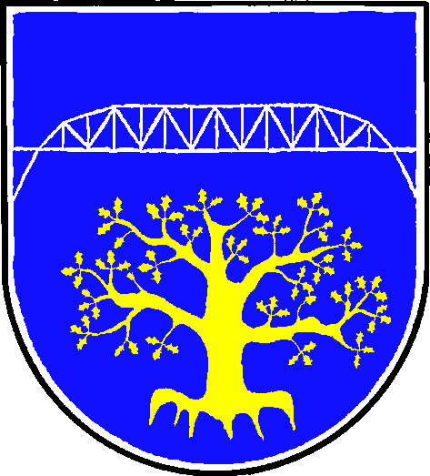 Coat of arms of the former Amt Kirchspielslandgemeinde (county) Burg-Süderhastedt in Schleswig-Holstein, Germany.